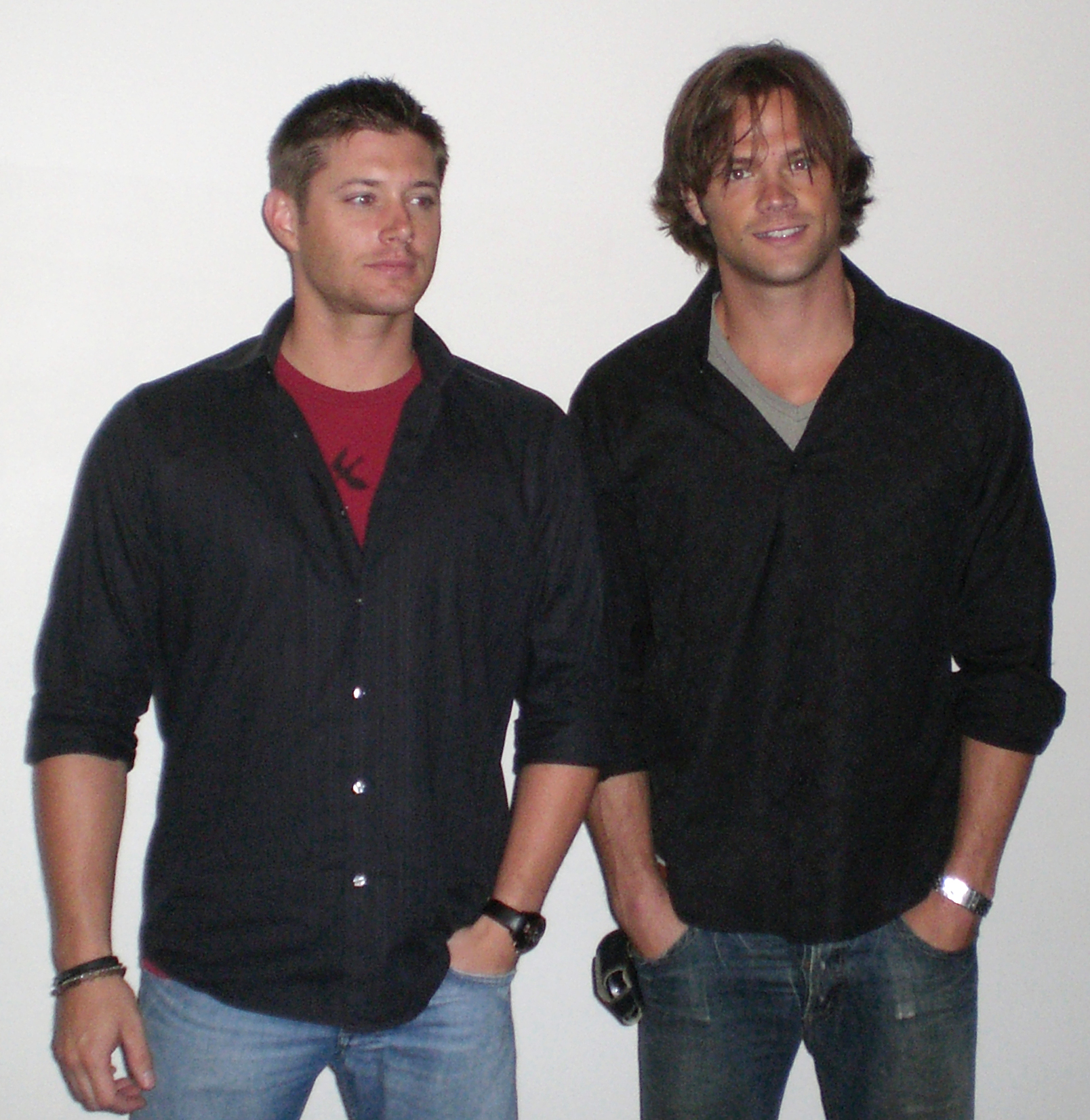 Jensen Ackles and Jared Padalecki at the Comic-Con International 2008